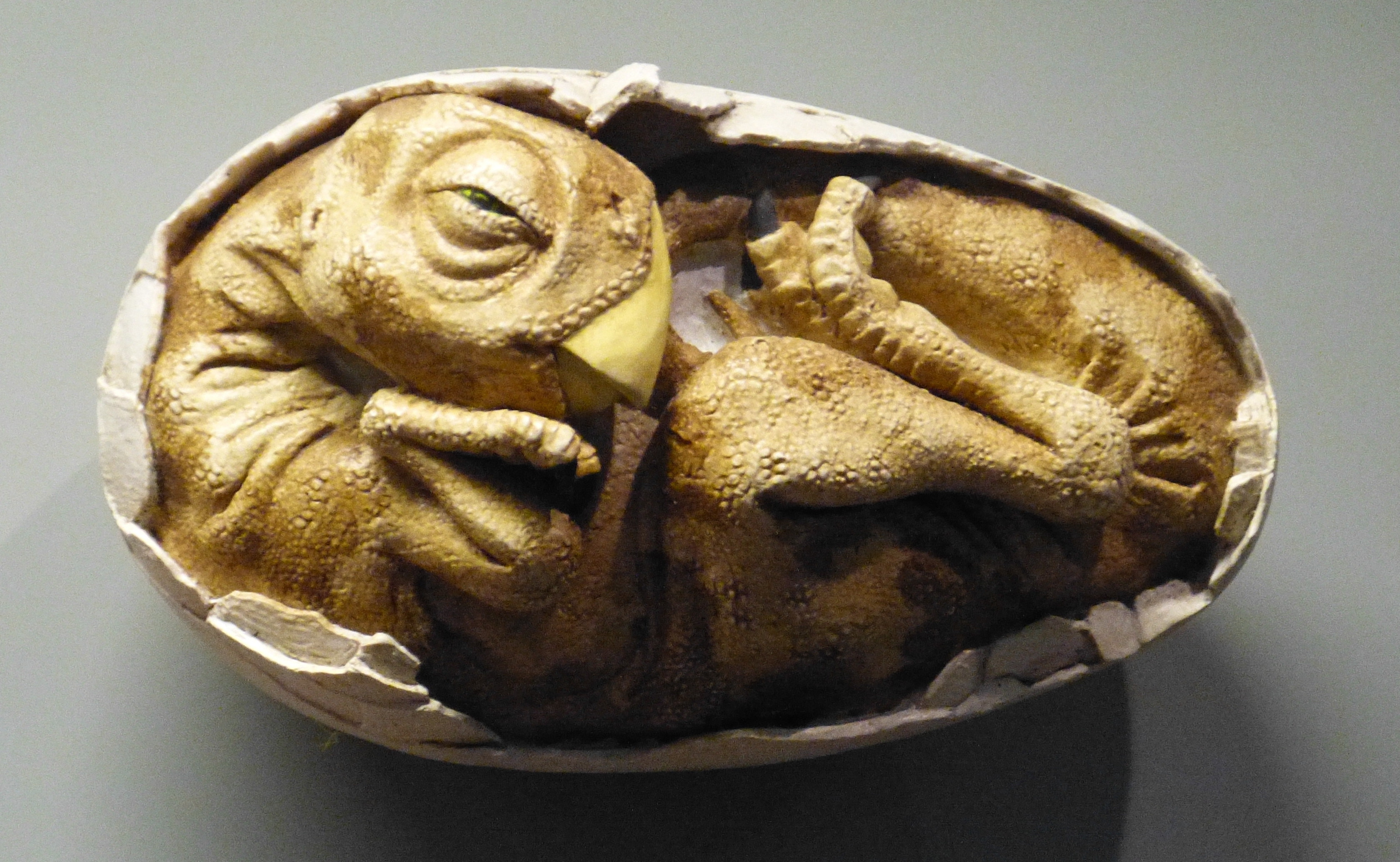 Natural History Museum, Vienna. Modell of a dinosaur egg.